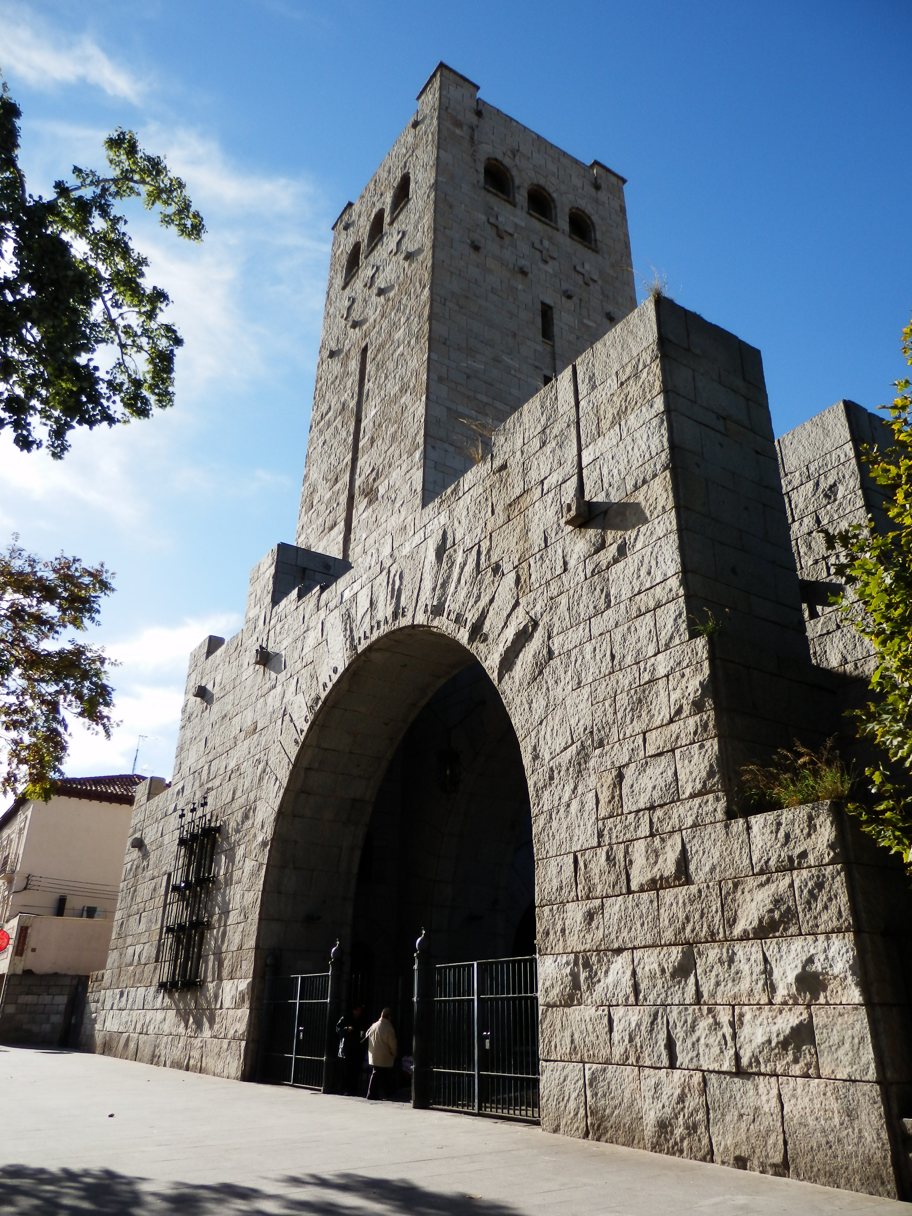 Mausoleum in Zaragoza for the Italian soldiers killed in the Spanish Civil War. Funded by Benito Mussolini. Completed in 1940.